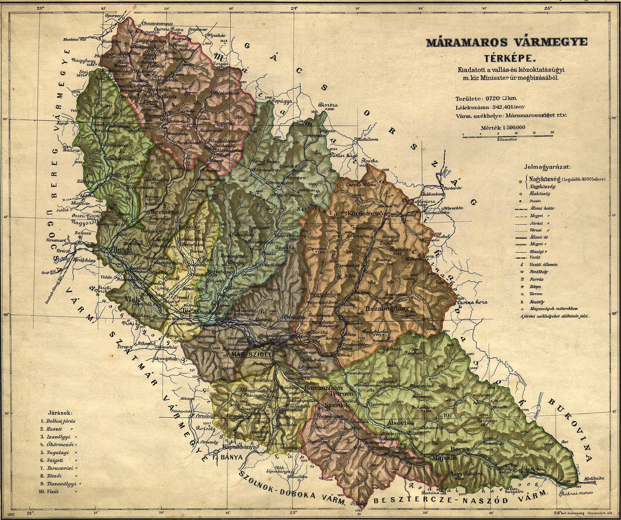 Administrative map of the county of Máramaros in the Kingdom of Hungary